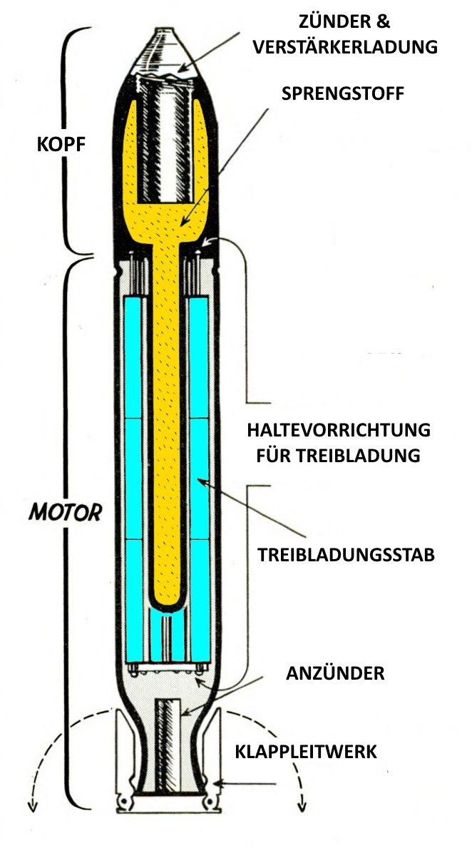 M8 Rocket Schema